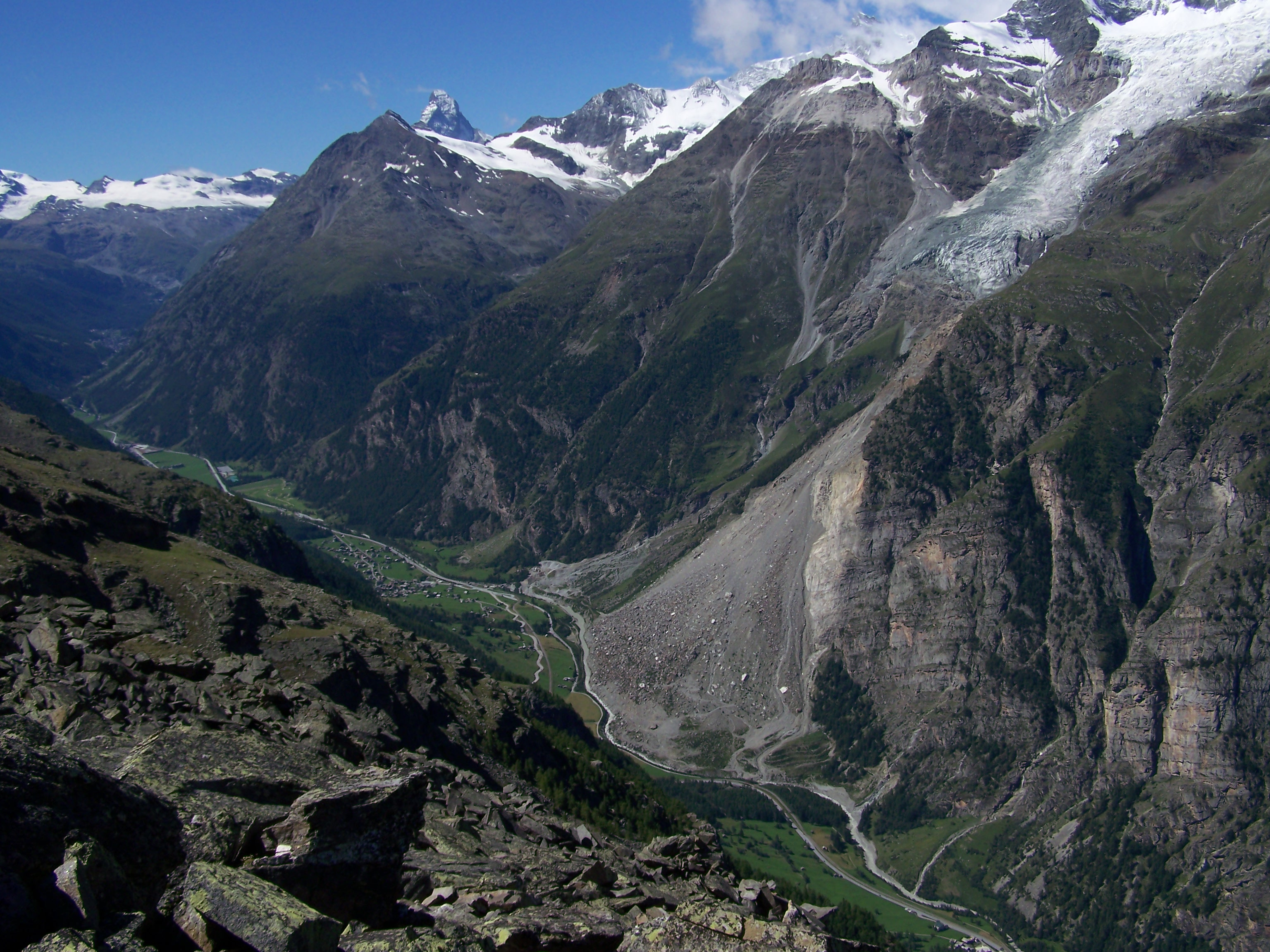 The Mattertal, a valley in the Alps, Switzerland. On the western slope a large alluvial fan, deposited by a landslide in the 1990's, can be seen above the village of Randa.